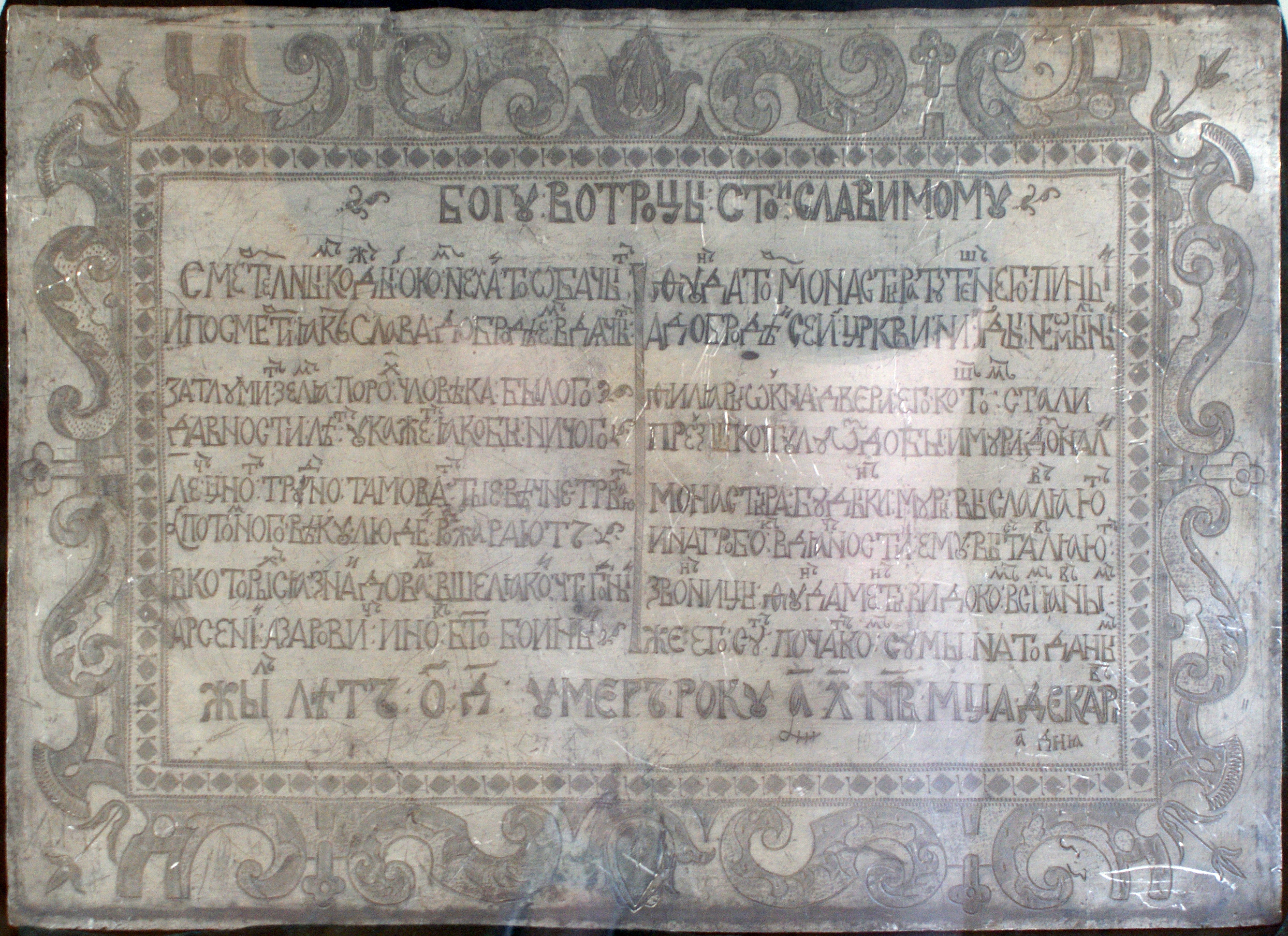 Plaque with an epitaph in memory of the monk Arsenius Azarovicha. 1652 Mogilev. Metal engraving. Comes from Epiphany Monastery in Mogilev.